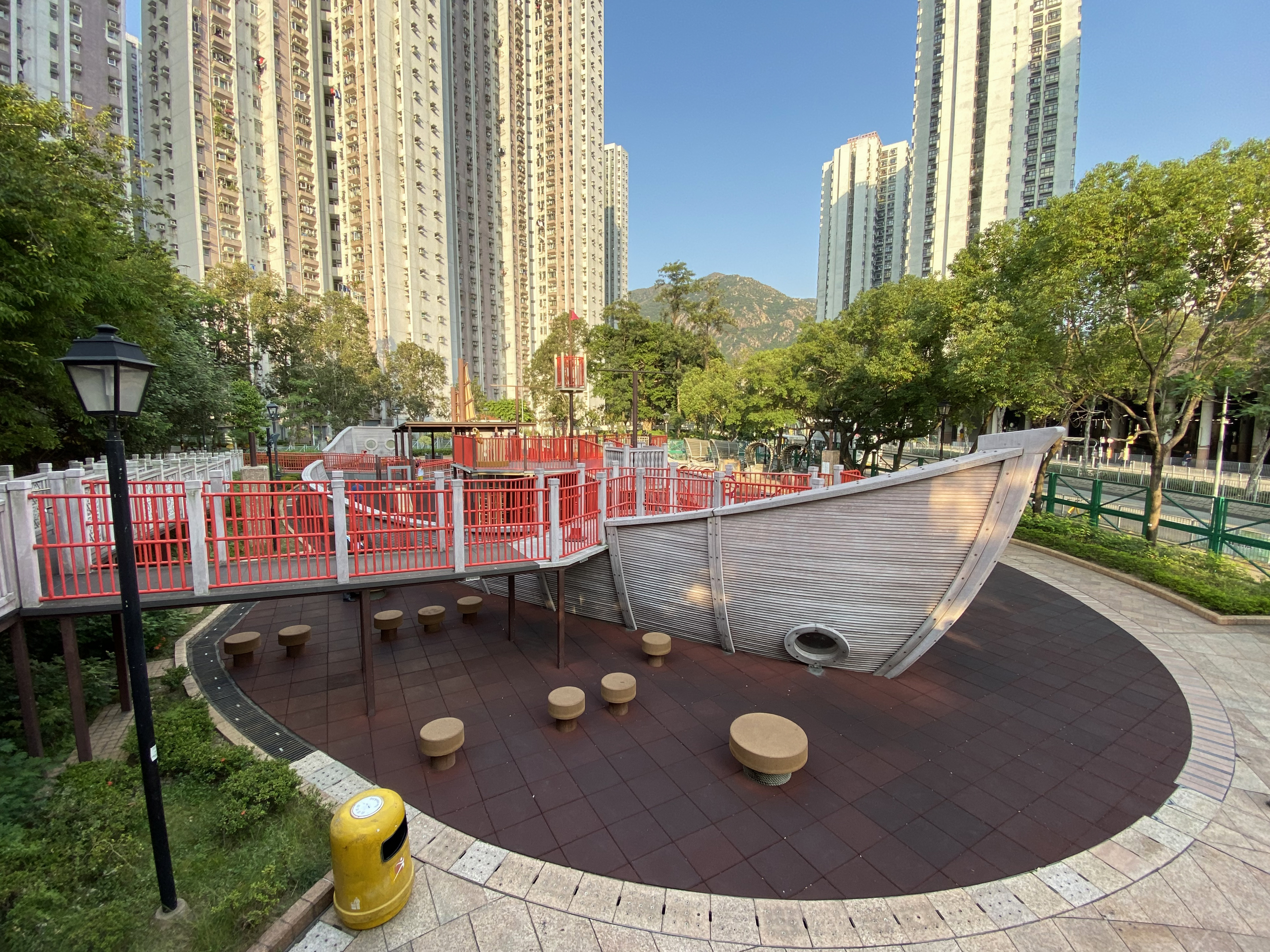 Mouse Island Children's Playground